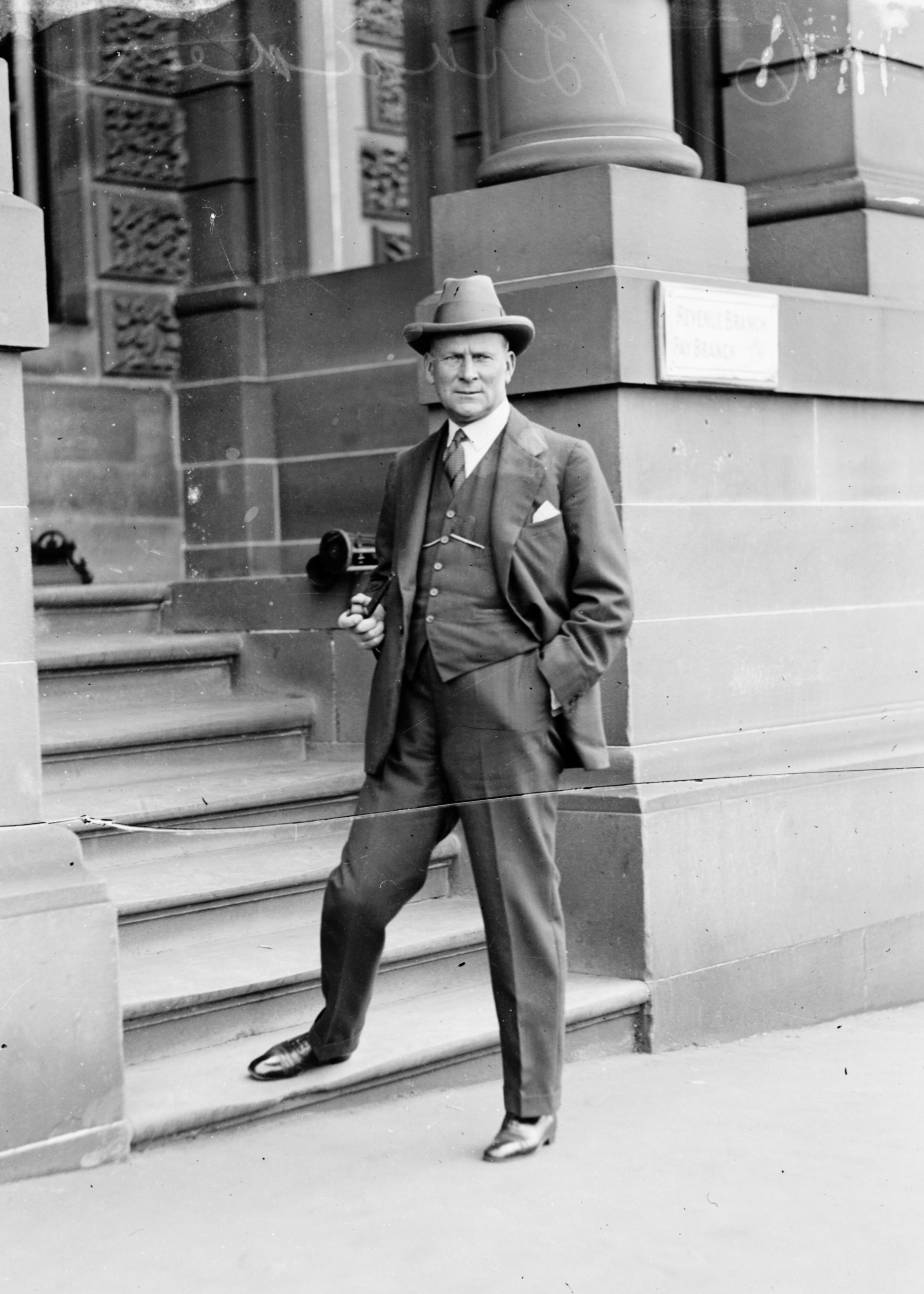 Australian politician Michael Bruxner, Deputy Premier of New South Wales, on the steps of the Treasury Building, Sydney